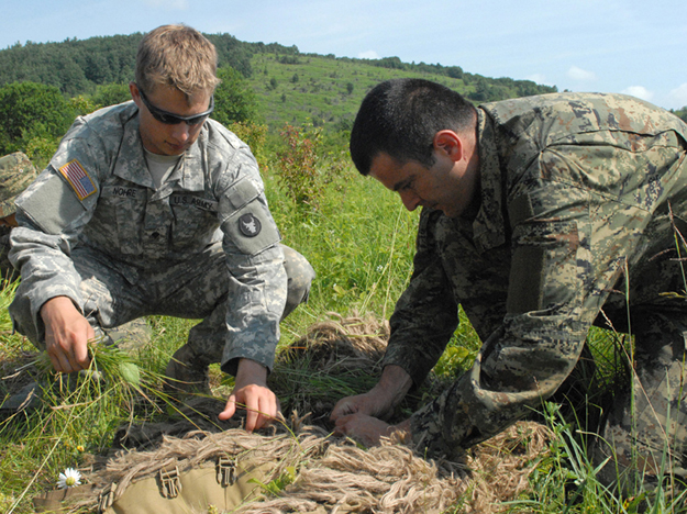 U.S. Army Spc. Kyle Nohre, Headquarters and Headquarters Company, 2-136th Combined Arms Battalion, Minnesota National Guard and Sgt. Filip Susnjara Croatian 2nd Motorized Battalion ‘Spiders’ prepare camouflage before testing their sniper skills during exercise Immediate Response in the Slunj Training Area, Croatia.